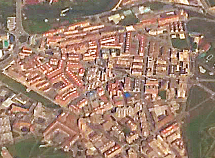 Donibane, Iruñea-Pamplona, Navarre, Basque Country